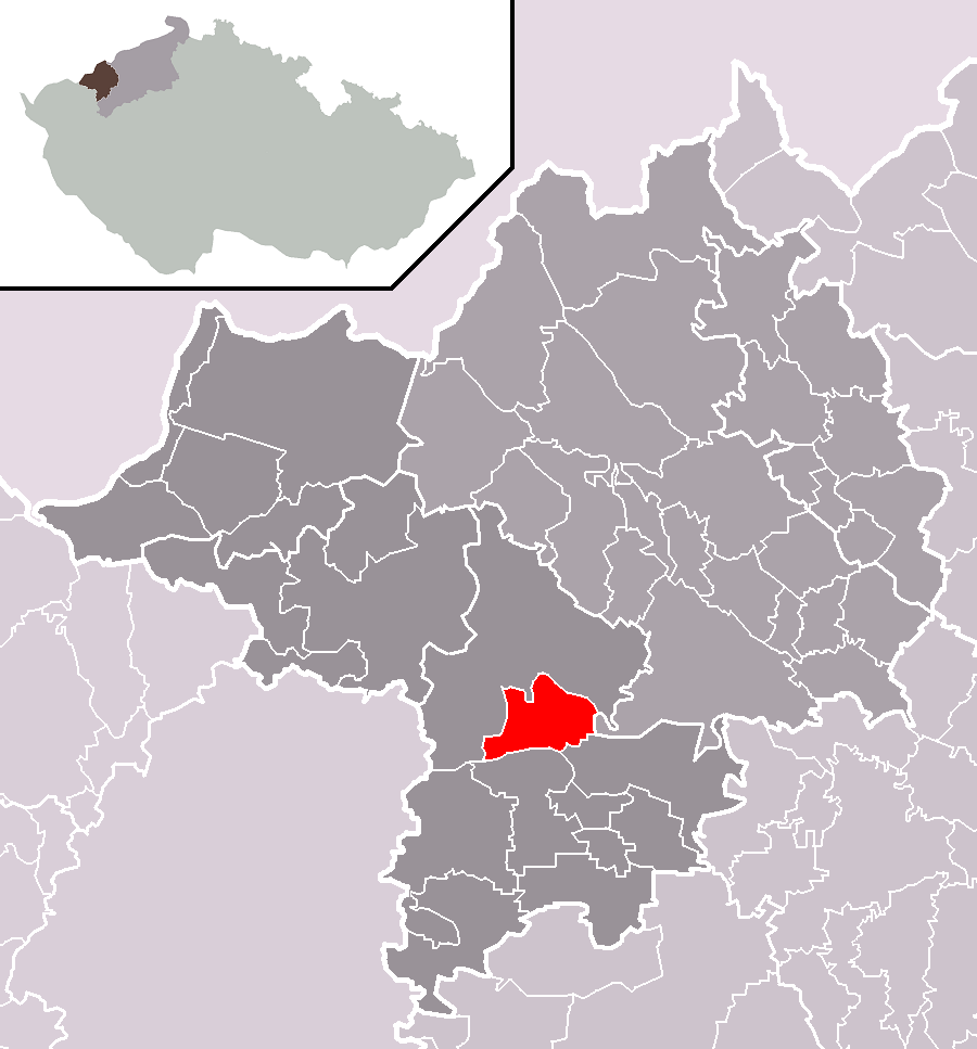 Location of Rokle municipality within Chomutov District and administrative area of Kadaň as a Municipality with Extended Competence.